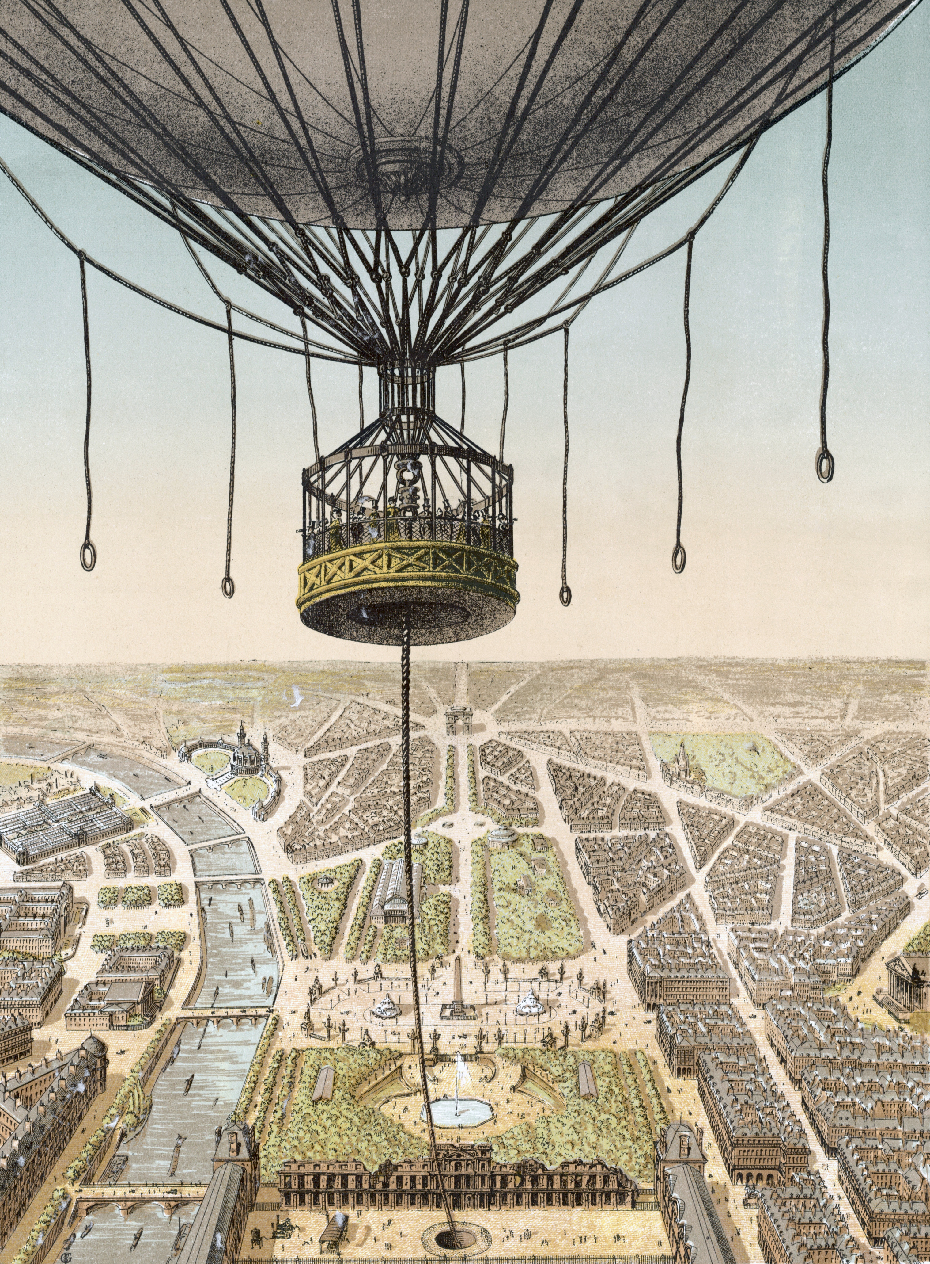 French poster shows the basket of Henri Giffard's captive balloon and a bird's-eye view of Paris to advertise balloon ascensions at the 1878 world's fair.